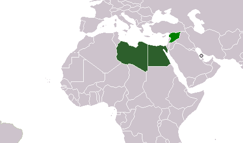 Federation of Arab Republics 1973: Union agreement between Egypt and Libya within the Federation